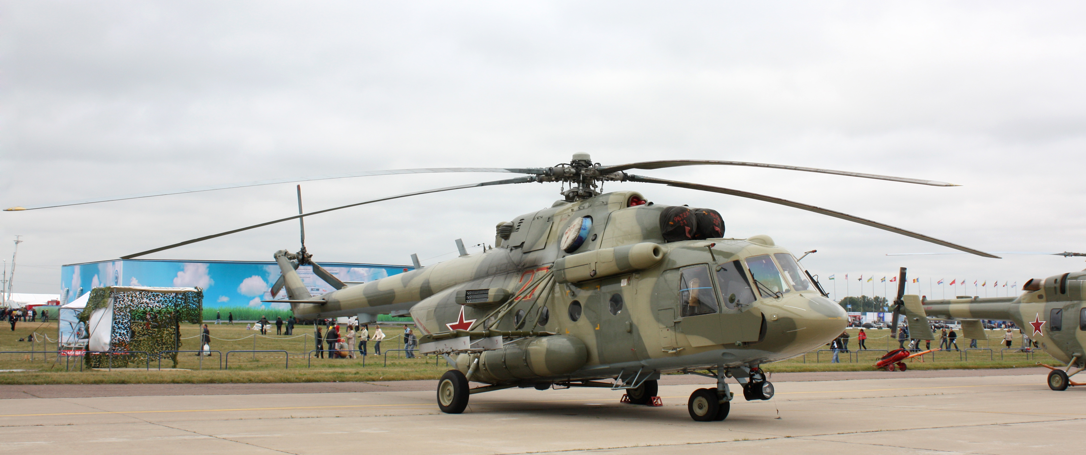 Mil Mi-8MTV-5 (The international aerospace salon MAKS-2009)